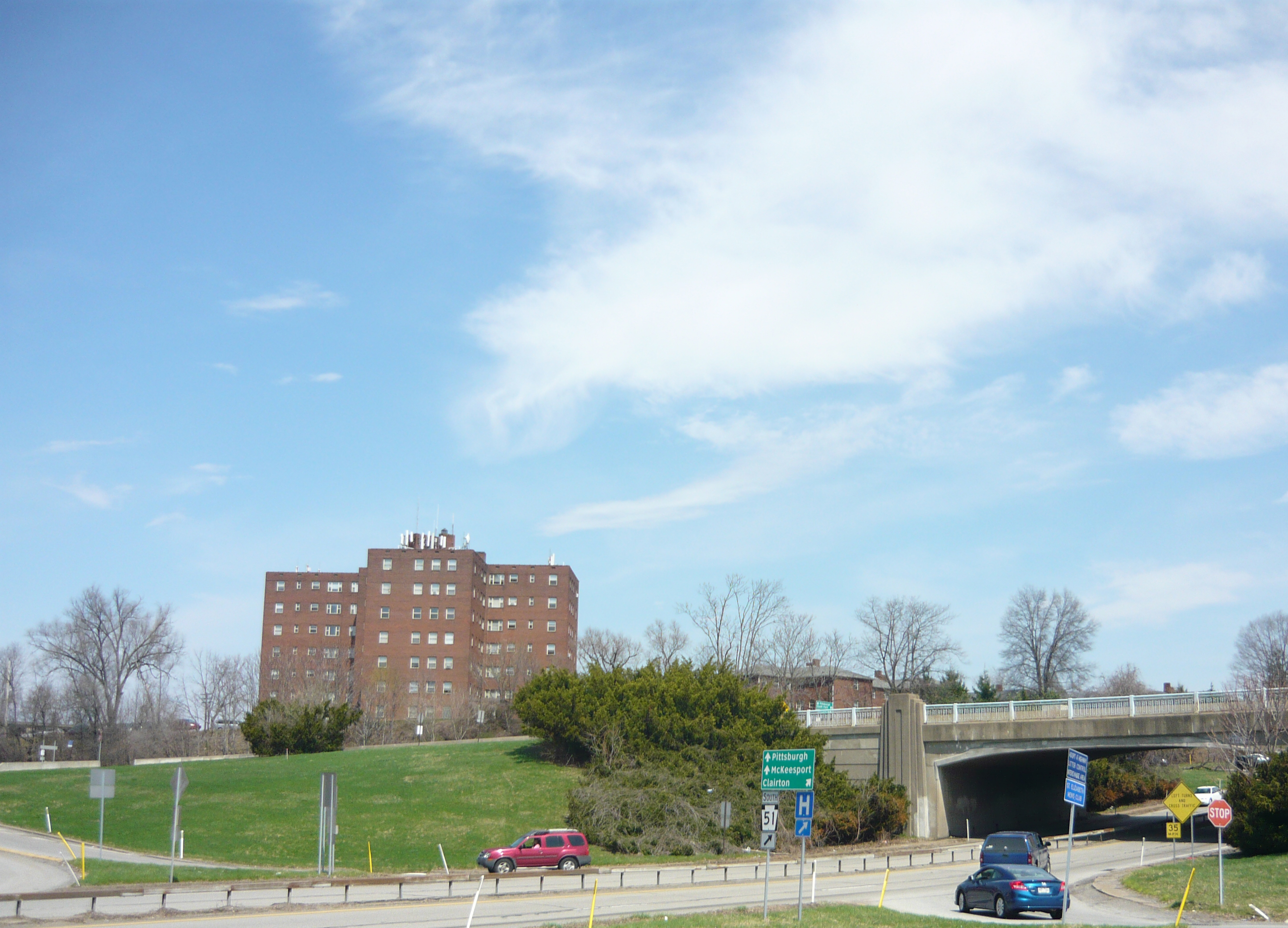 Pleasant Hills Cloverleaf, built 1939, showing Curry Hollow Road (lower level) with Clairton Boulevard (Route 51) on the overpass, in Pleasant Hills, Allegheny County, Pennsylvania. View is toward the northeast. The tall building in the background is Cloverleaf Tower Apartments on Betty Rae Drive.